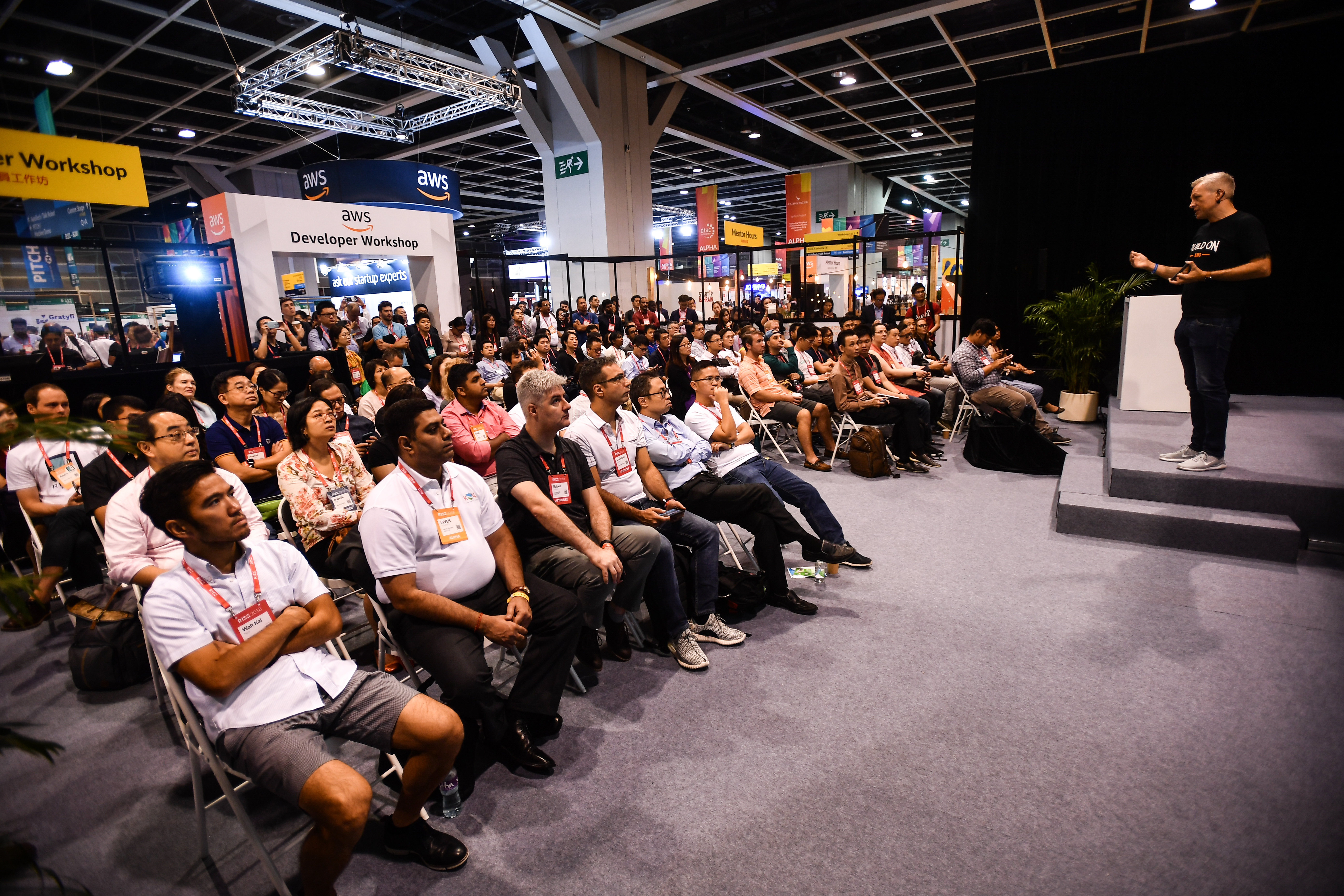 11 July 2018; AWS Developer Workshops during day two of RISE 2018 at the Hong Kong Convention and Exhibition Centre in Hong Kong. Photo by David Fitzgerald / RISE via Sportsfile